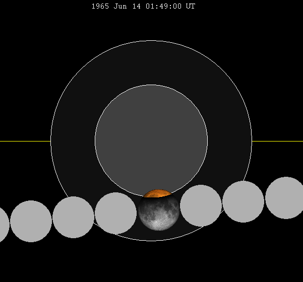 June 1965 lunar eclipse chart of moon's path through the earth's shadow. thumb